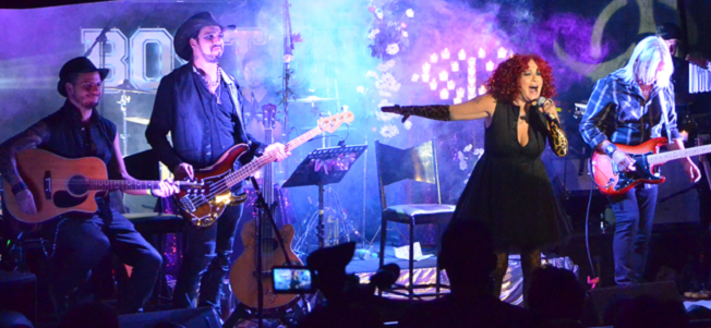 Kenny y los Eléctricos durante una presentación